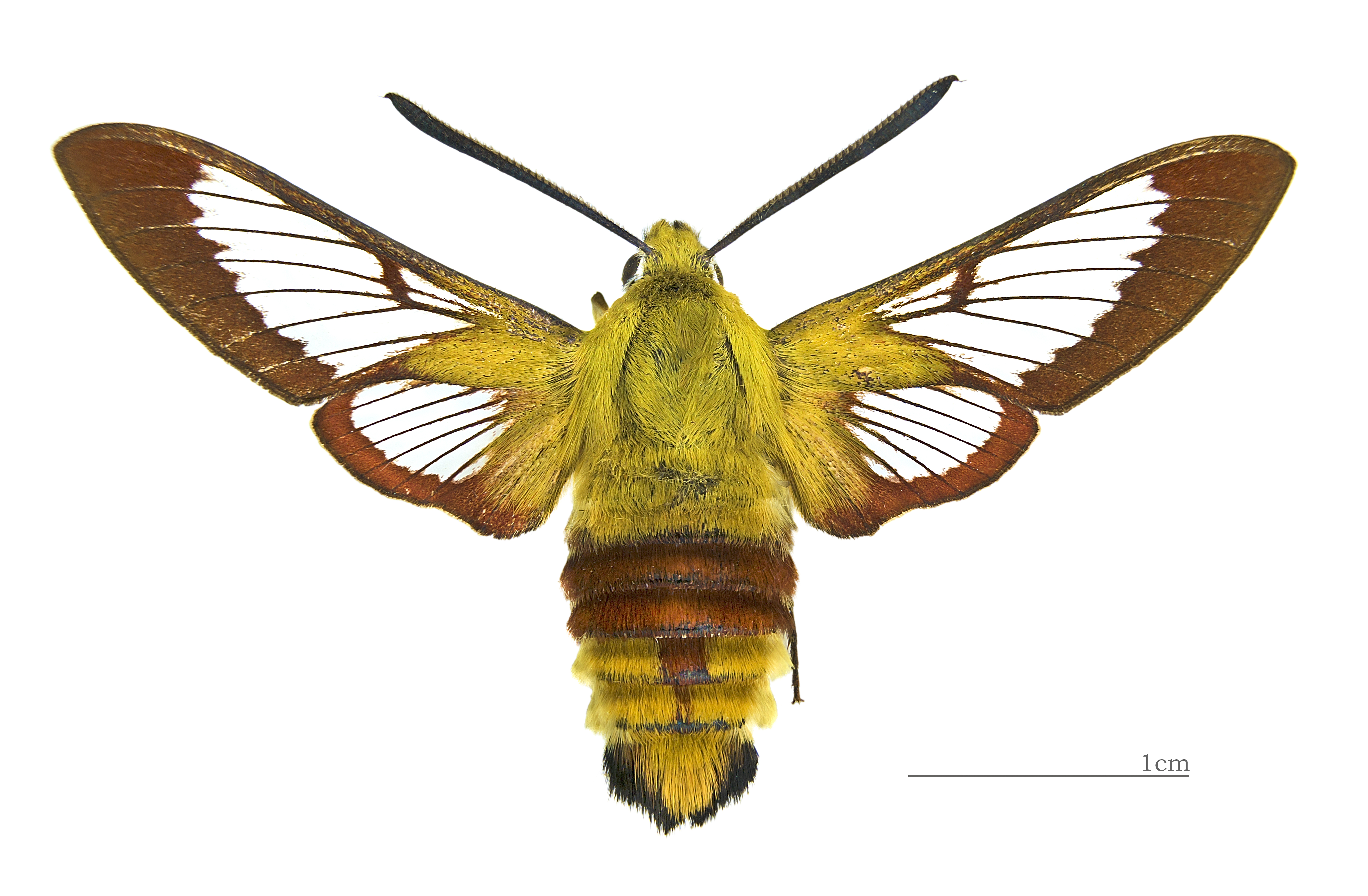 Broad-bordered Bee Hawk-moth - Dorsal side